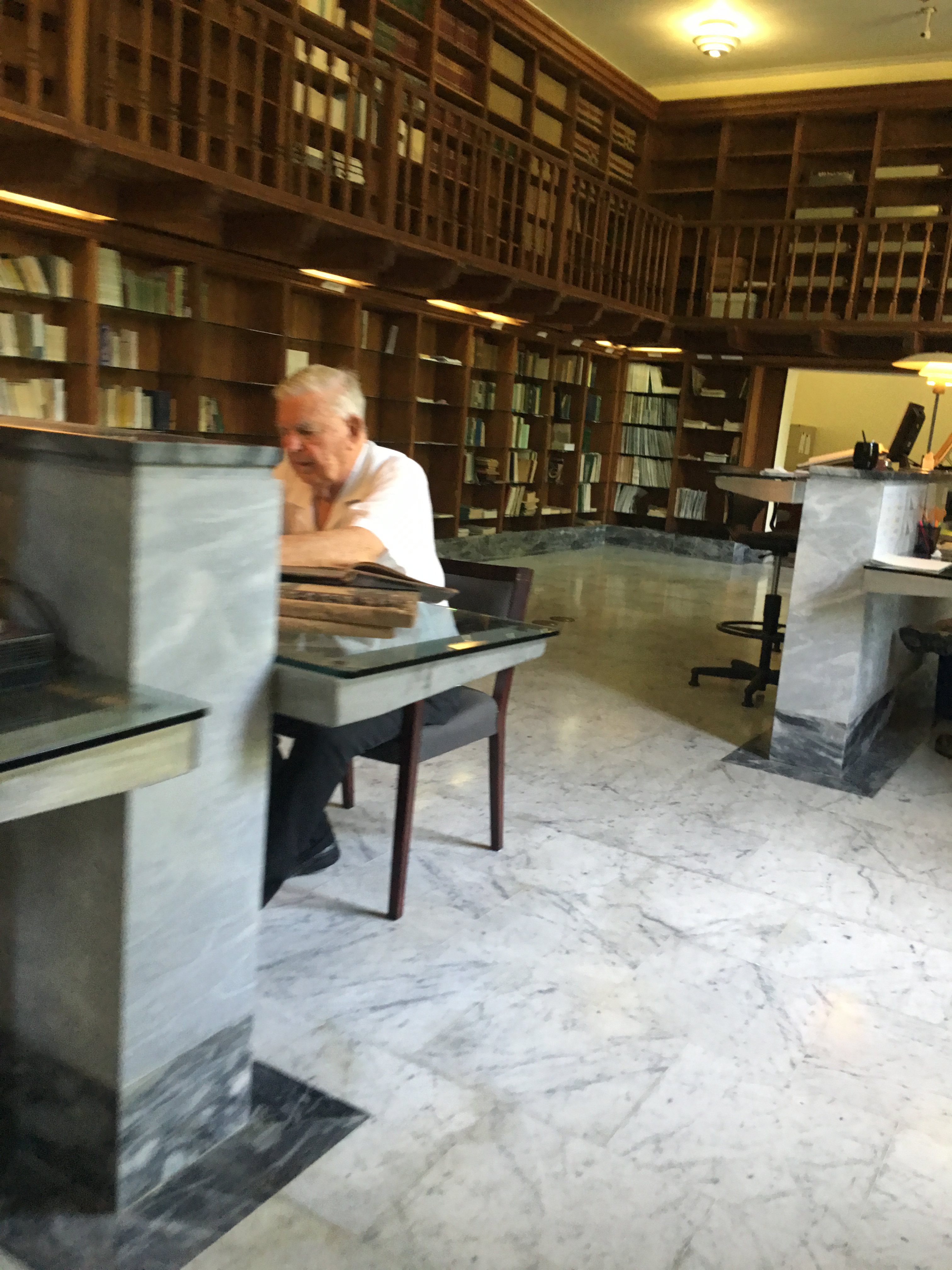 Historian Fernando Pico at the Archivo General de la Nación in San Juan, Puerto Rico